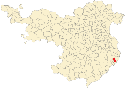 Mont-ras